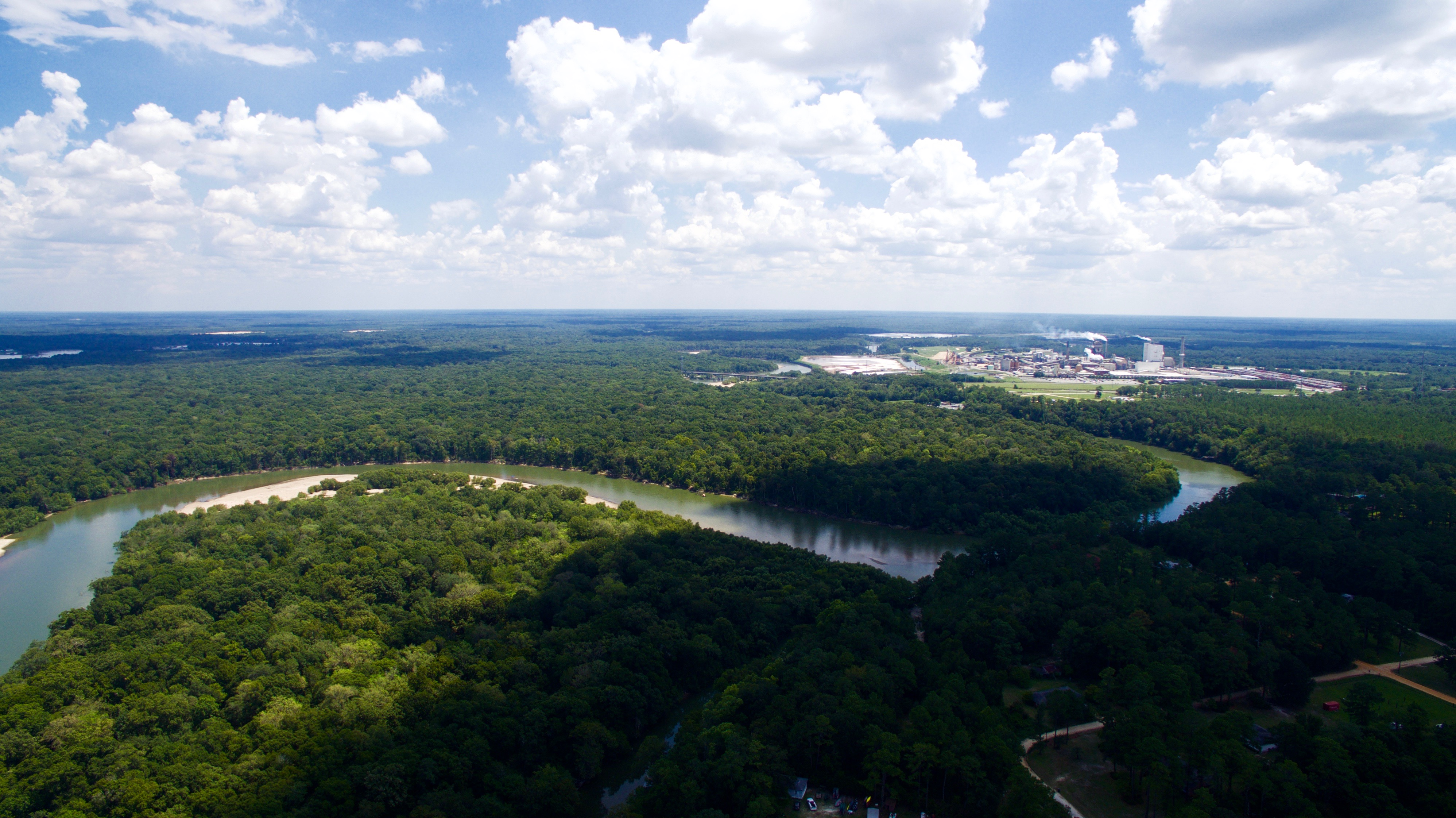 Altamaha at Buggs Bluff looking SE. Rayonier and US301 bridge in background.